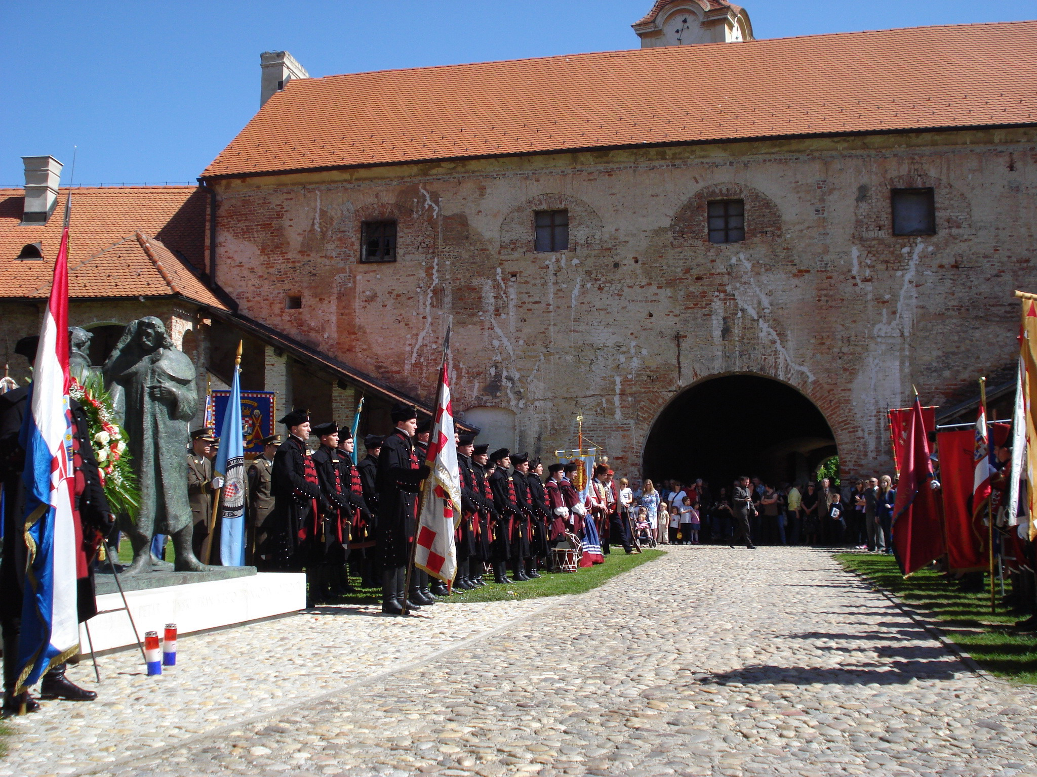 Zrinski guard - historical military unit from Čakovec, northern Croatia (16th century), at Čakovec Castle during The Medjimurje County Day celebration